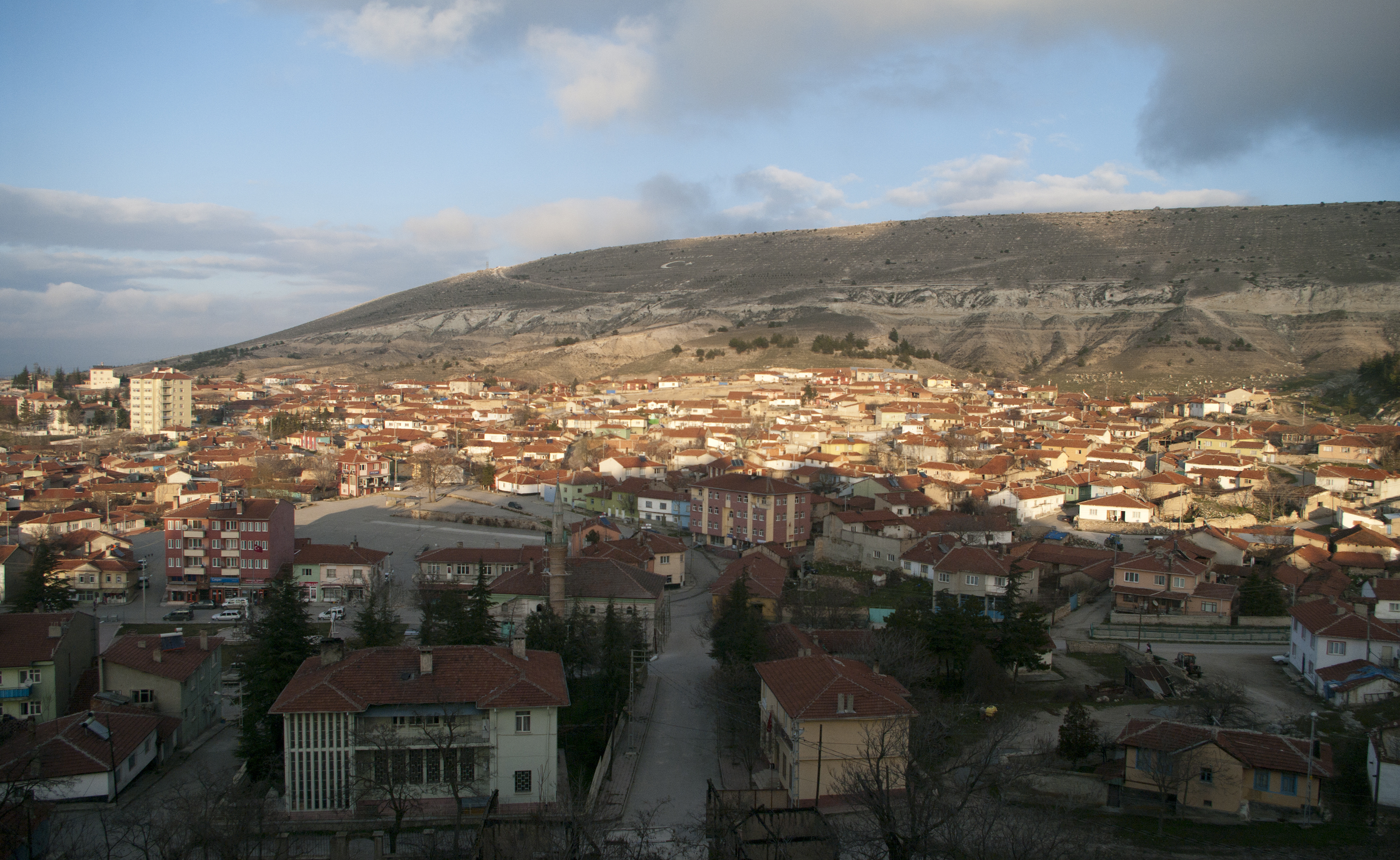 A partial view of northeastern side of Seyitgazi from the tomb of Seyit Battal Gazi. Eskişehir, Turkey.